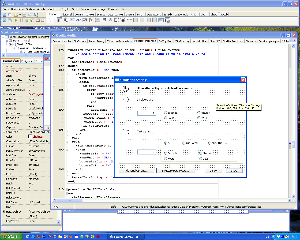 Screenshot of Lazarus 1.0 with sourcecode of SimThyr 3.1. Lazarus is licensed under GPL and GLPL, SimThyr is licensed under a BSD license.